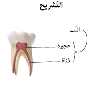 Anatomy of a deciduous (baby) tooth